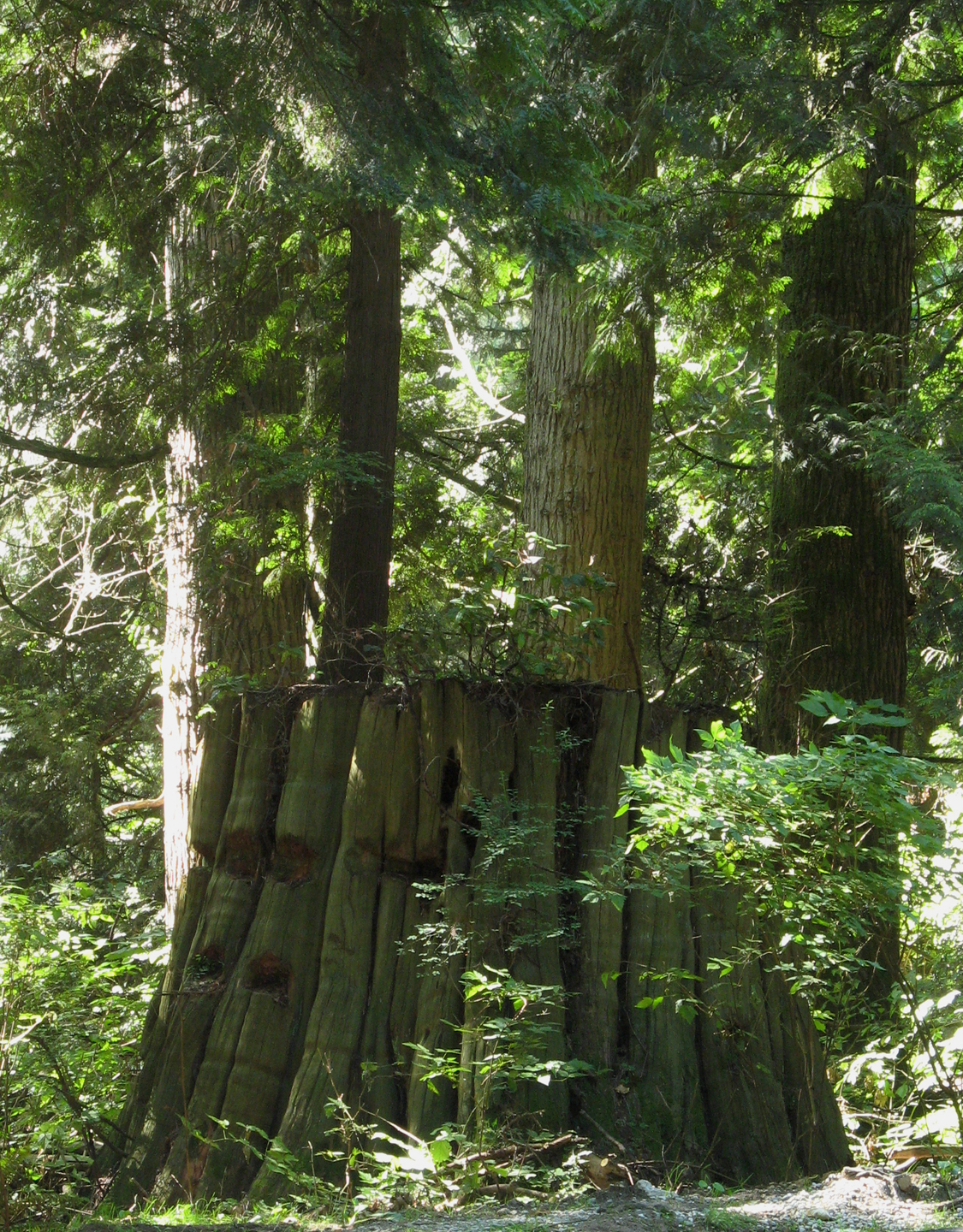 Notched tree stump